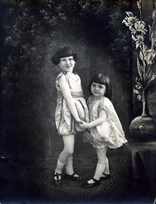 Peggy & Lassie Lou Ahern (c. 1921-1922)